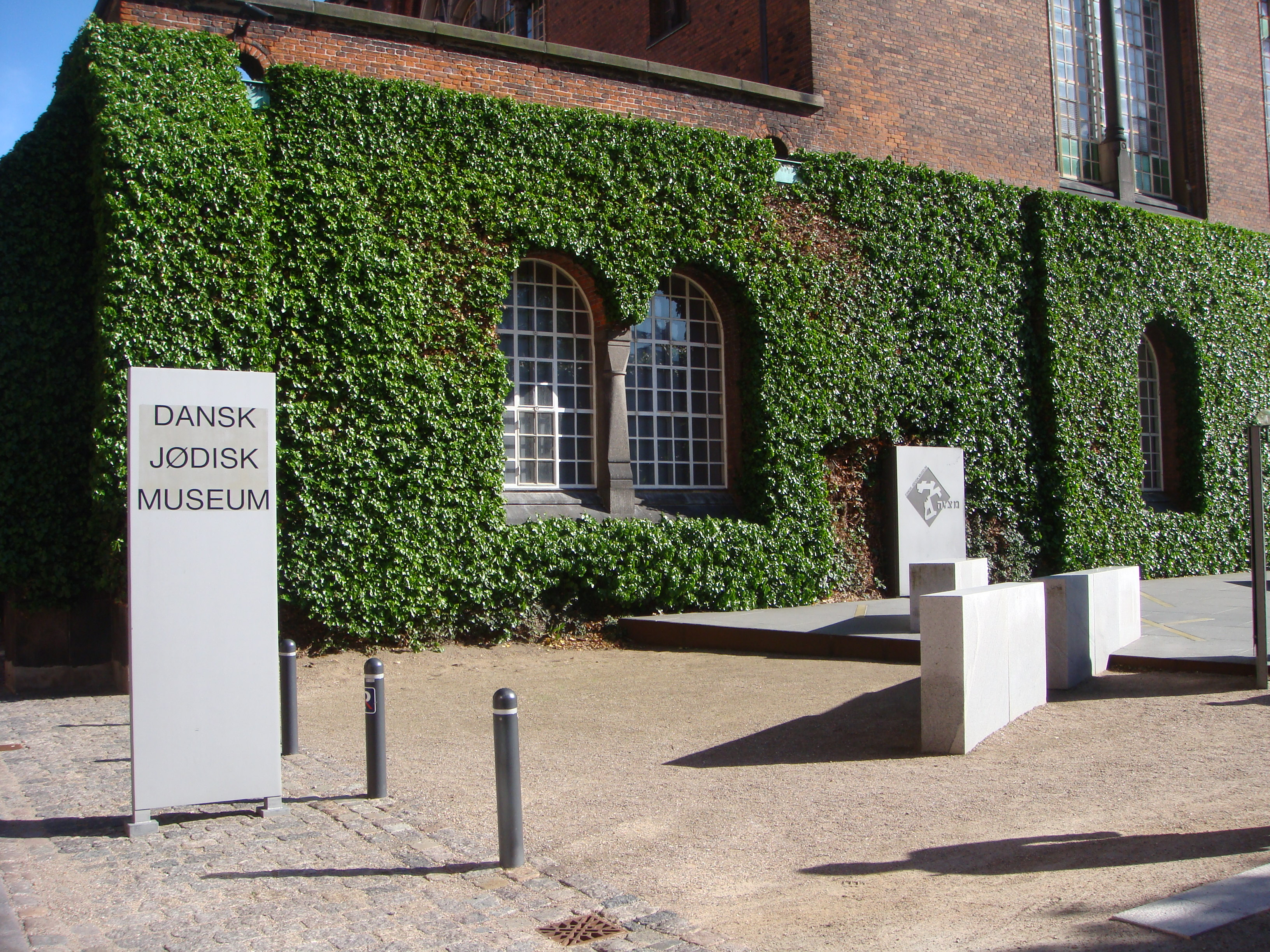 The entrance to the Danish Jewish Museum in Copenhagen, Denmark